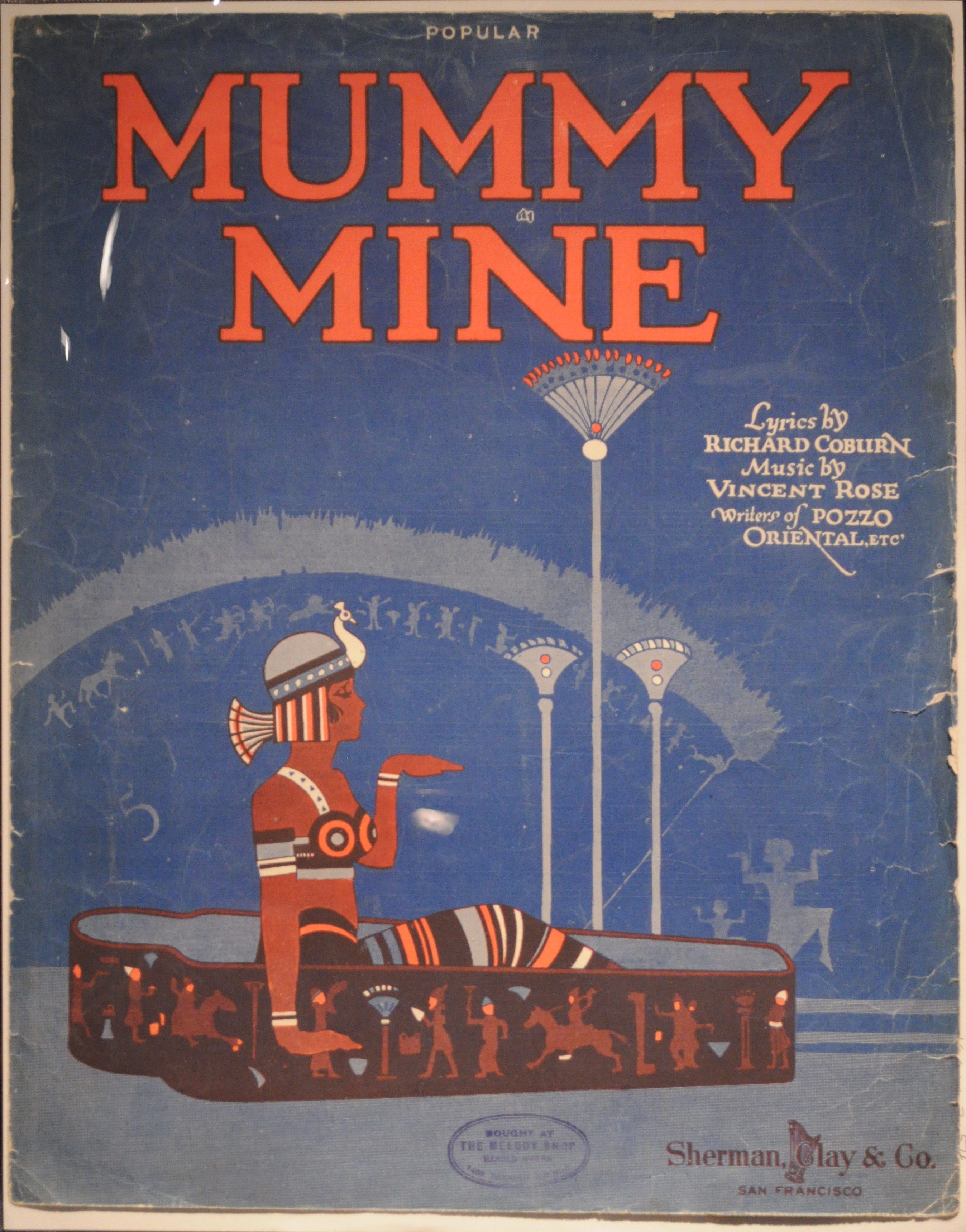 Sheet music, "Mummy Mine", Richard Coburn and Vincent Rose. Washington State History Museum, item 1994.1.2.542